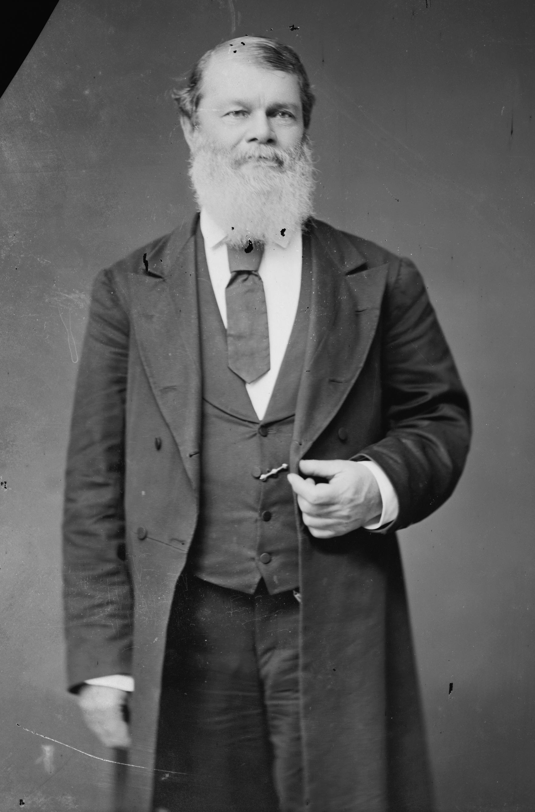 Beriah Magoffin, the Governor of Kentucky from 1859 to 1862. Library of Congress title: "Magoffin, Hon. Beriah of Ky", Library of Congress Prints and Photographs Division, Brady-Handy Photograph Collection, CALL NUMBER: LC-BH832- 918 [P&P]